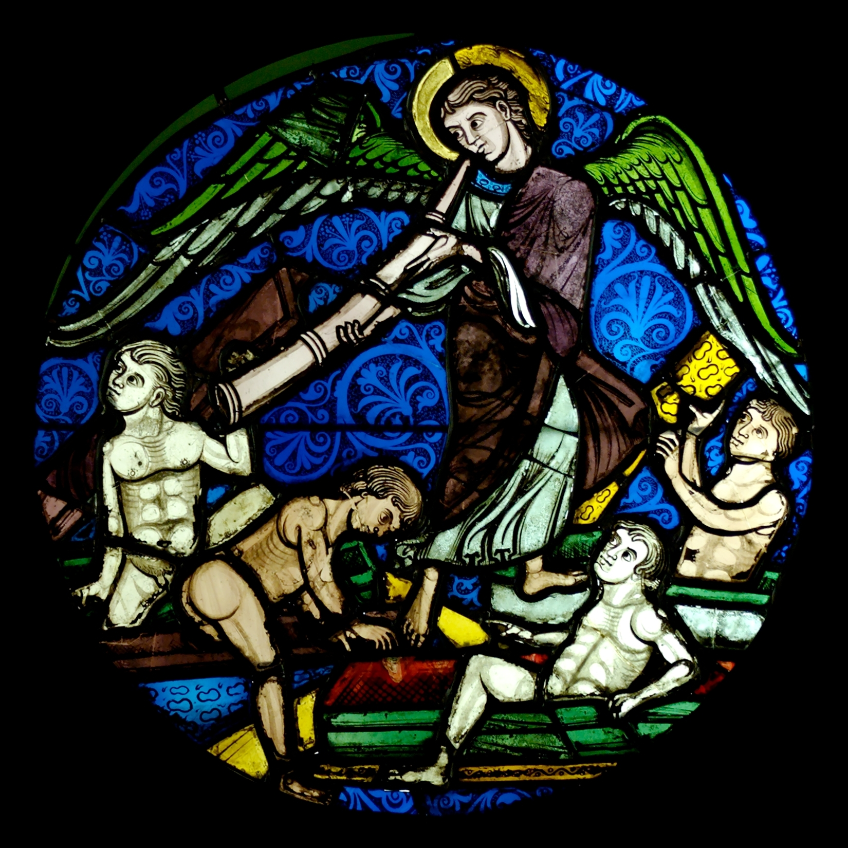 Resurrection of the dead. Stained glass, region of Paris, ca. 1200. From the Sainte-Chapelle.